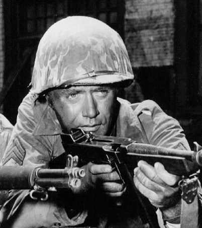 Photo of Vice Morrow as Sgt. Saunders, cropped from File:Sal Mineo Vic Morrow Combat 1965.JPG